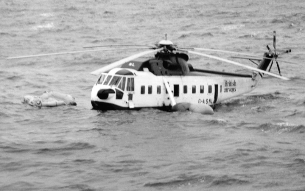 British Airways helicopter Sikorsky S-61N, G-ASNL ditched in the North Sea, 75 nm North-east of Aberdeen on 11 March 1983